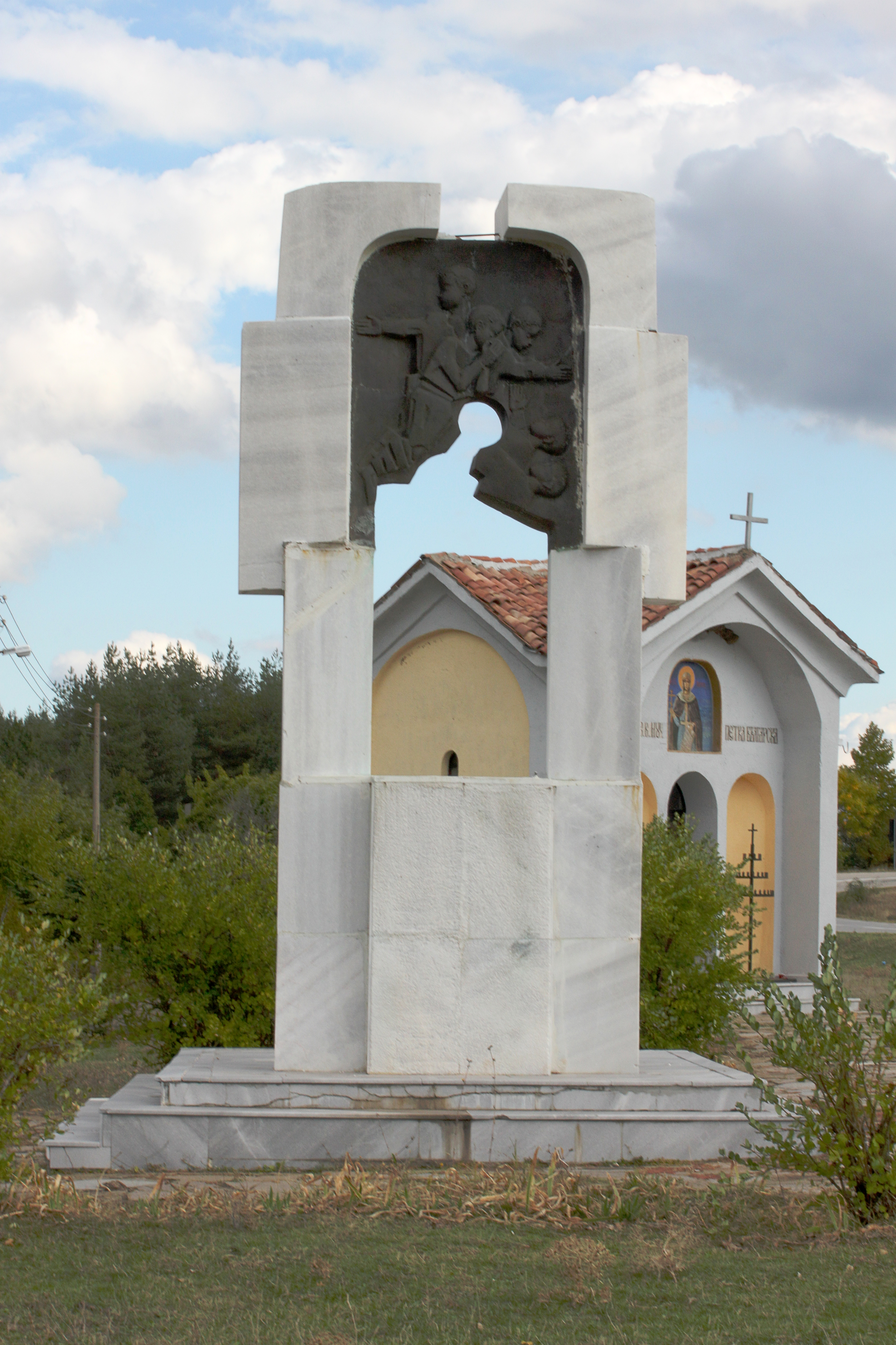 Ilieva niva, in the Rhodope Mountains, Bulgaria